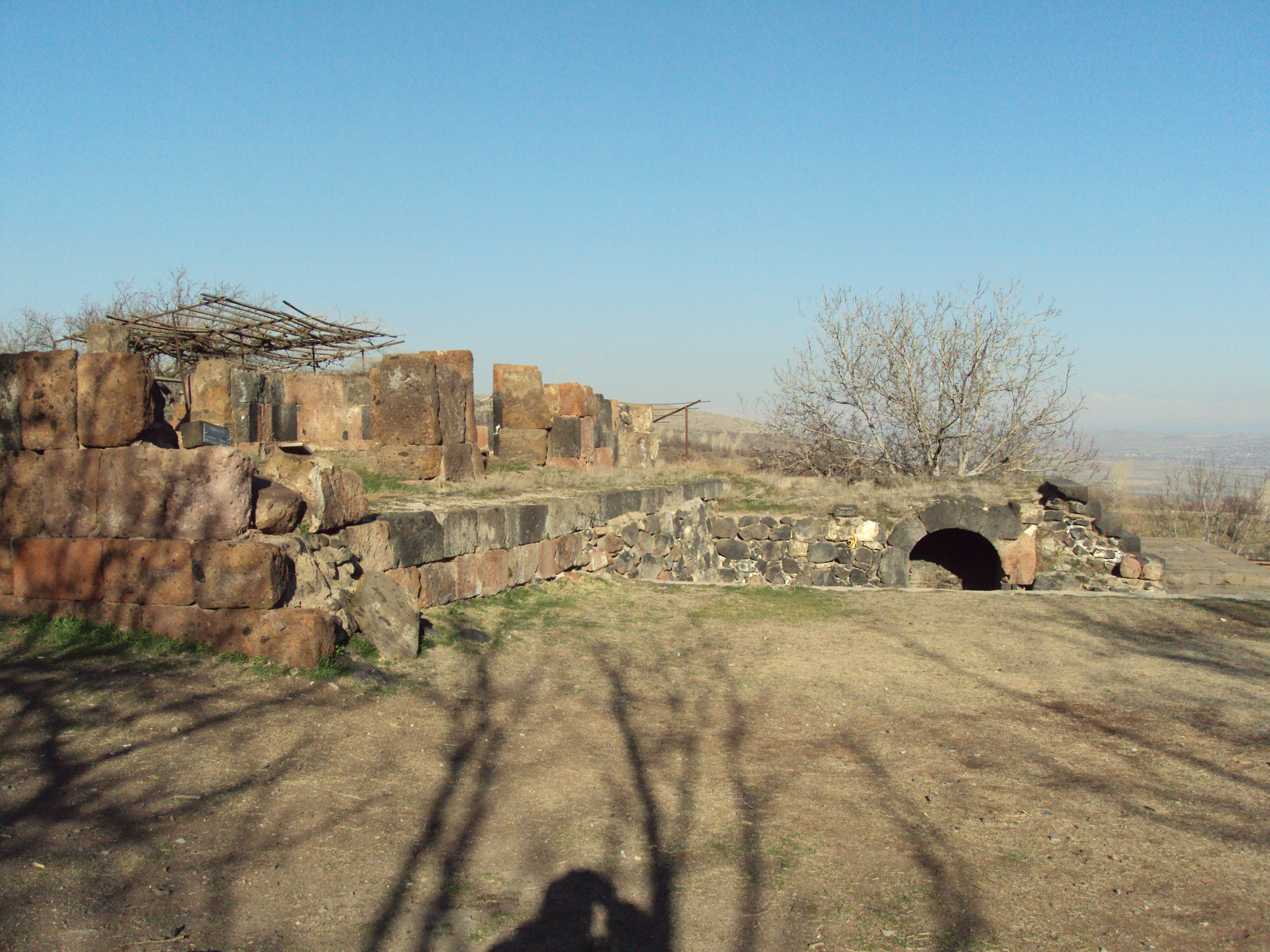 Arshakunyats Dambaran and Chapel, Aghdzk, Armenia 8/1 8/1.2